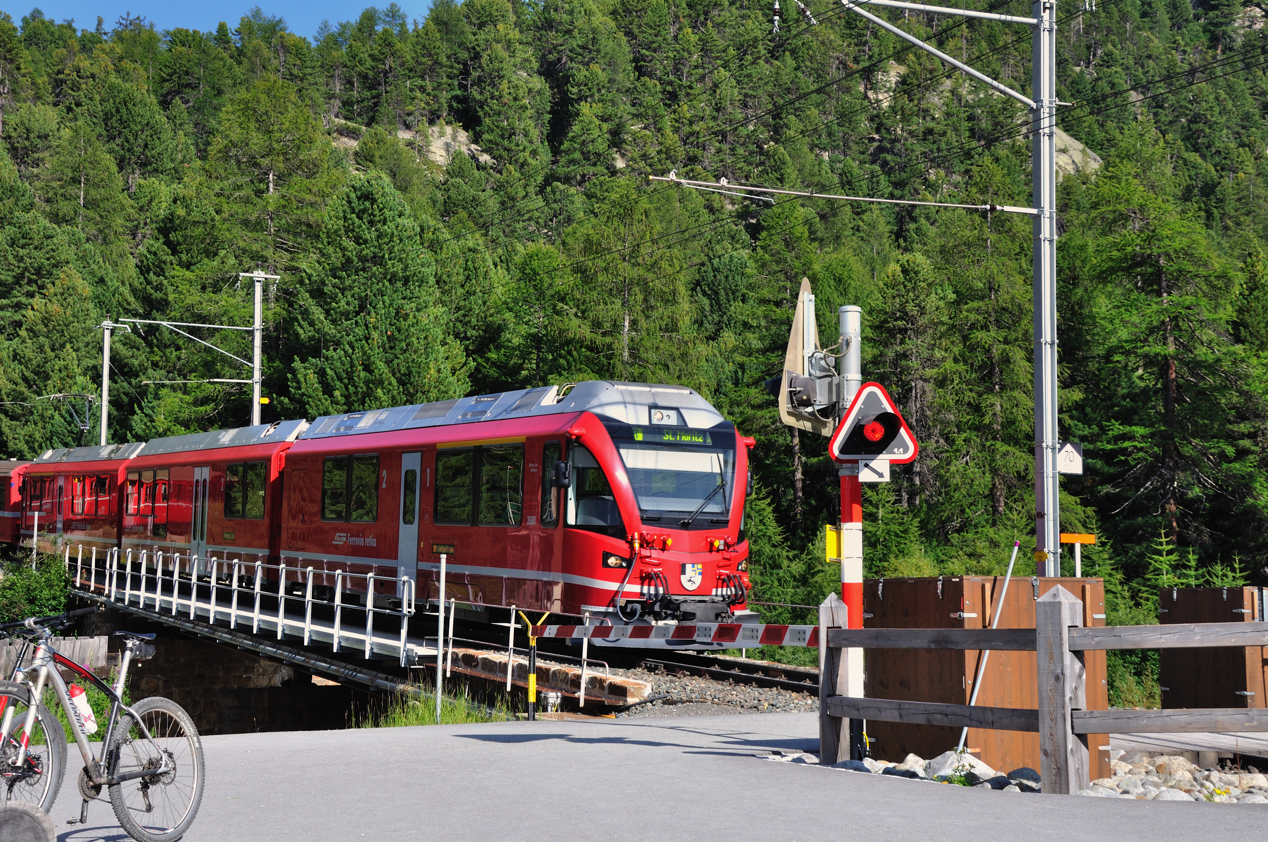 Switzerland, Graubünden, Bernina line of the Rhaetian railway